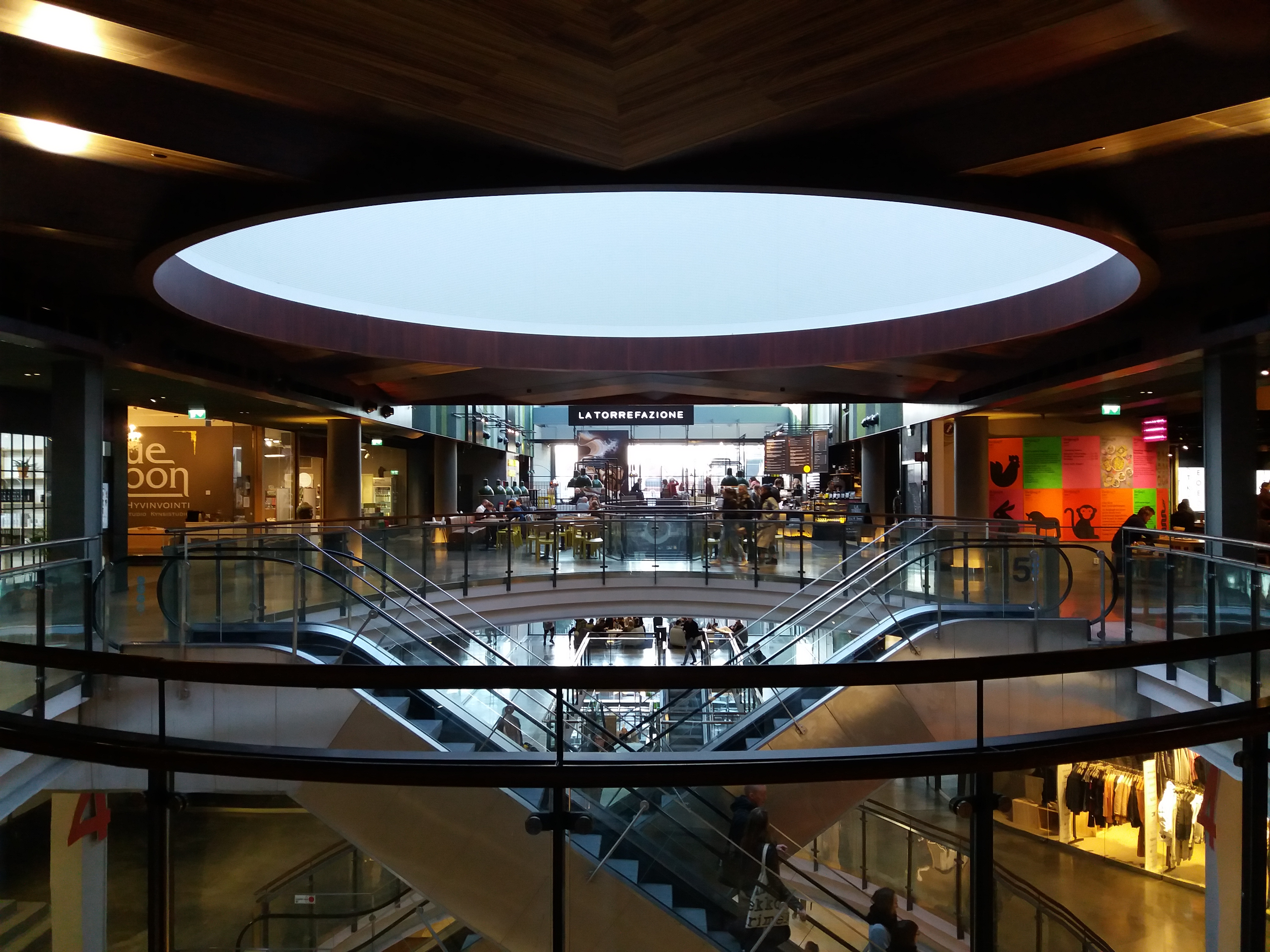 Fifth floor in Kamppi Center, Helsinki, Finland